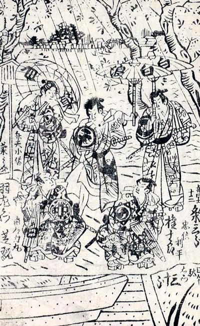 The actors Ichimura Uzaemon XIII (top/left), Nakamura Shikan IV (bottom/left), Seki Sanjūrō III (center), Iwai Kumesaburō III (top/right) and Kawarazaki Gonjūrō I (bottom/right) playing the roles of Benten Kozō Kikunosuke, Nangō Rikimaru, Nippon Daemon, Akaboshi Jūzaburō and Tadanobu Rihei in an illustrated playbill for the kabuki drama "Aoto Zōshi Hana no Nishikie", which was staged in March 1862 at the Ichimura-za